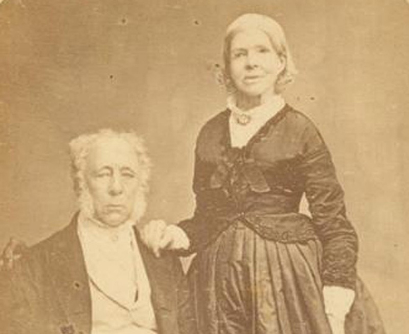 John George Nathaniel Gibbes and Mrs Gibbes circa 1860